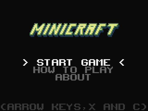 The title screen from Minicraft, a game made by Markus "Notch" Persson